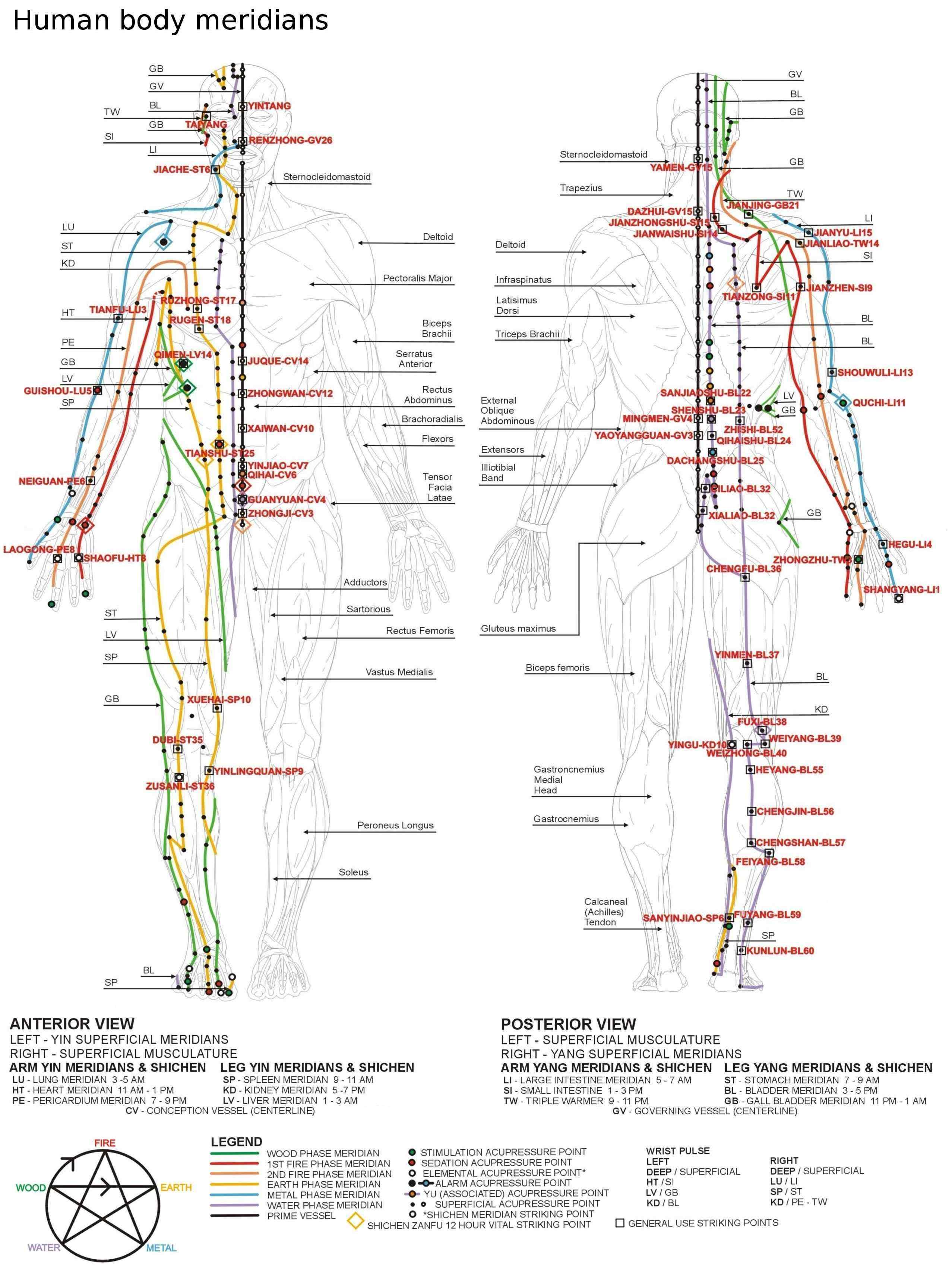 A schematic of the "chinese" or human body meridians. The chinese meridians are used in various oriental fight styles, as well as in healthcare; e.g. in tradititional herbal medicine, massage techniques, ... The schematic was based on an image of the Northern Crane Martial Arts Association dojo . Permission was given for the use of the image at wikimedia commons by sensei Phil Perez.